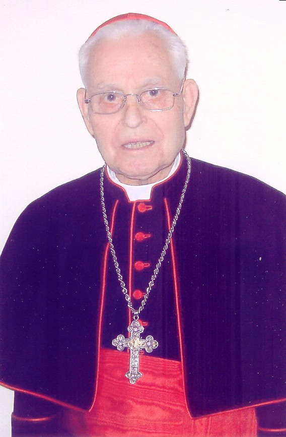 Urbano Navarrete (1920-2010), Spanish Jesuit, Professor at the Gregorian University and Cardinal (2007)